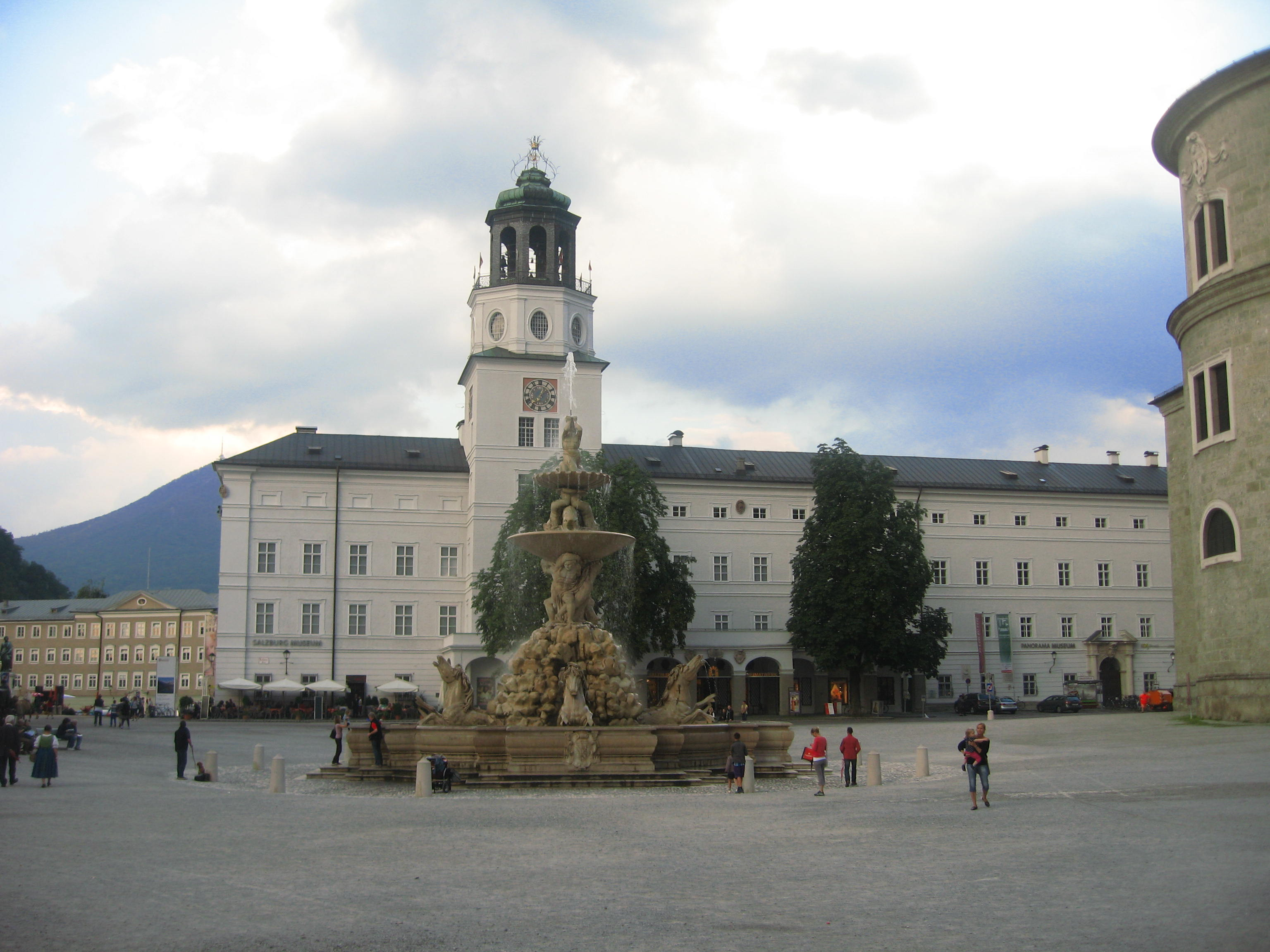 Residenzplatz Salzburg